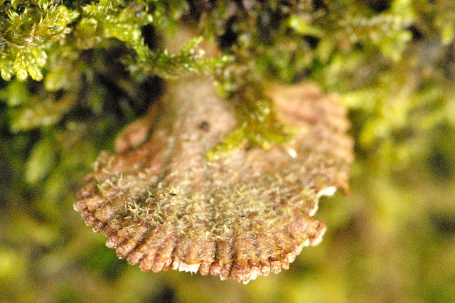 Schizophyllum commune from Commanster, Belgium. The determination of the species shown in this picture has been verified.